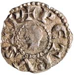 Coin (called "Denaro Segusino") of Petr I of Savoy